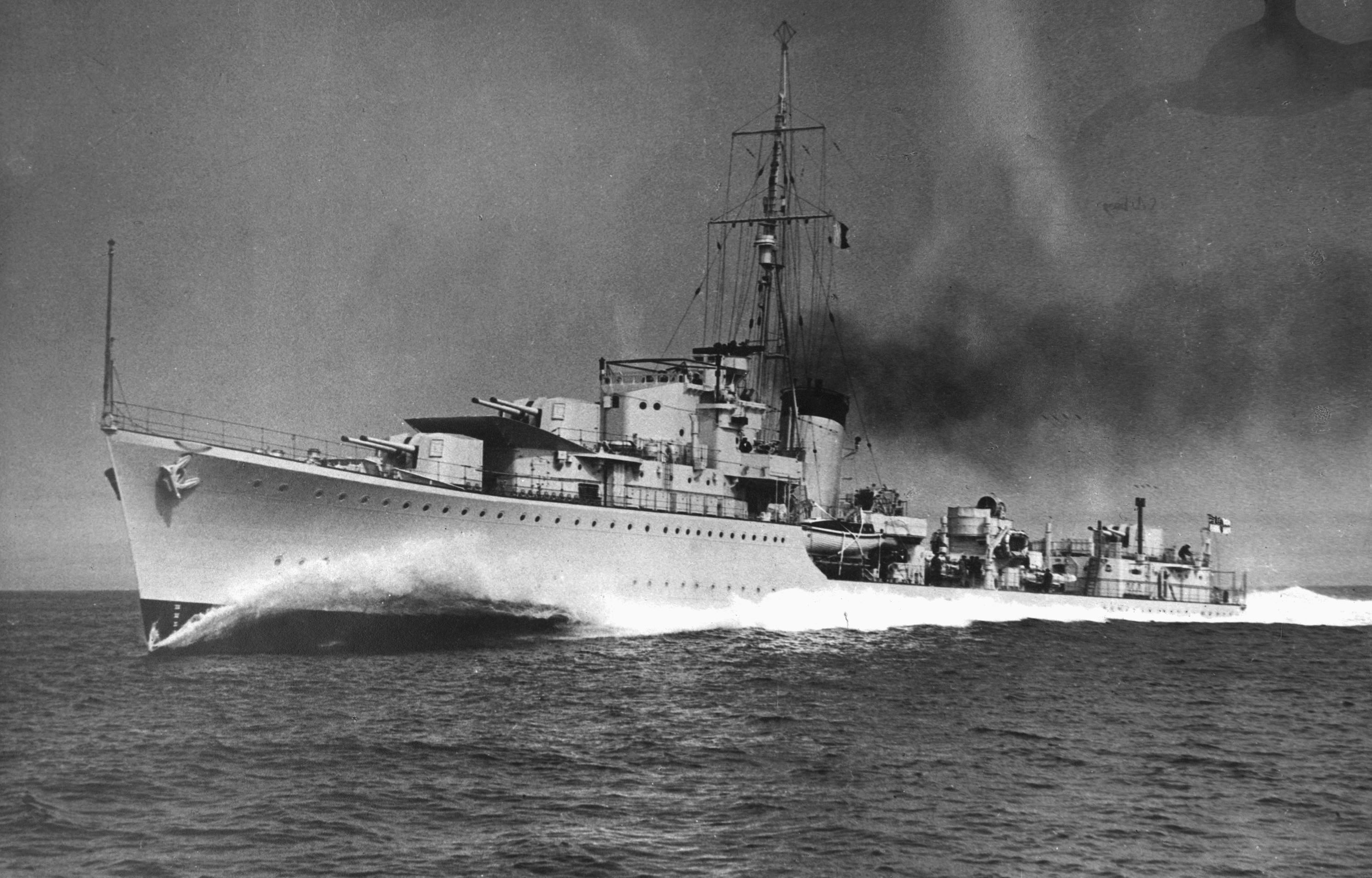 This photograph shows the HMS Kelly (built 1939) on full power trial. HMS Kelly was built at the Hawthorn Leslie yard, Hebburn. Reference: 2931-43-01 This image is taken from an album produced by the world famous shipbuilding and engineering firm of Hawthorn Leslie. The album gives us a fascinating glimpse of life at the company's shipyard at Hebburn from the late 1930s to the 1960s. There are remarkable images of the men at work in the yard and a poignant series showing the terrible damage caused during the Second World War to HMS Kelly, one of Hawthorn Leslie's best loved ships. This particular collection of images follows the Birth and ultimate Death of a ship. From the craft and pride in its production and the joy in its performance, to the devastation and price of its destruction. A blog about this fascinating collection can been viewed on the Tyne & Wear Archives & Museums website. (Copyright) We're happy for you to share these digital images within the spirit of The Commons. Please cite 'Tyne & Wear Archives & Museums' when reusing. Certain restrictions on high quality reproductions and commercial use of the original physical version apply though; if you're unsure please